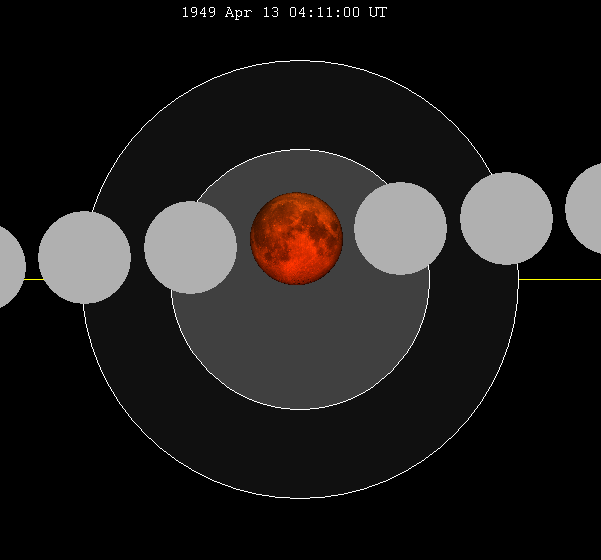 APril 1949 lunar eclipse chart of moon's lunar eclipse path through the earth's shadow. thumb